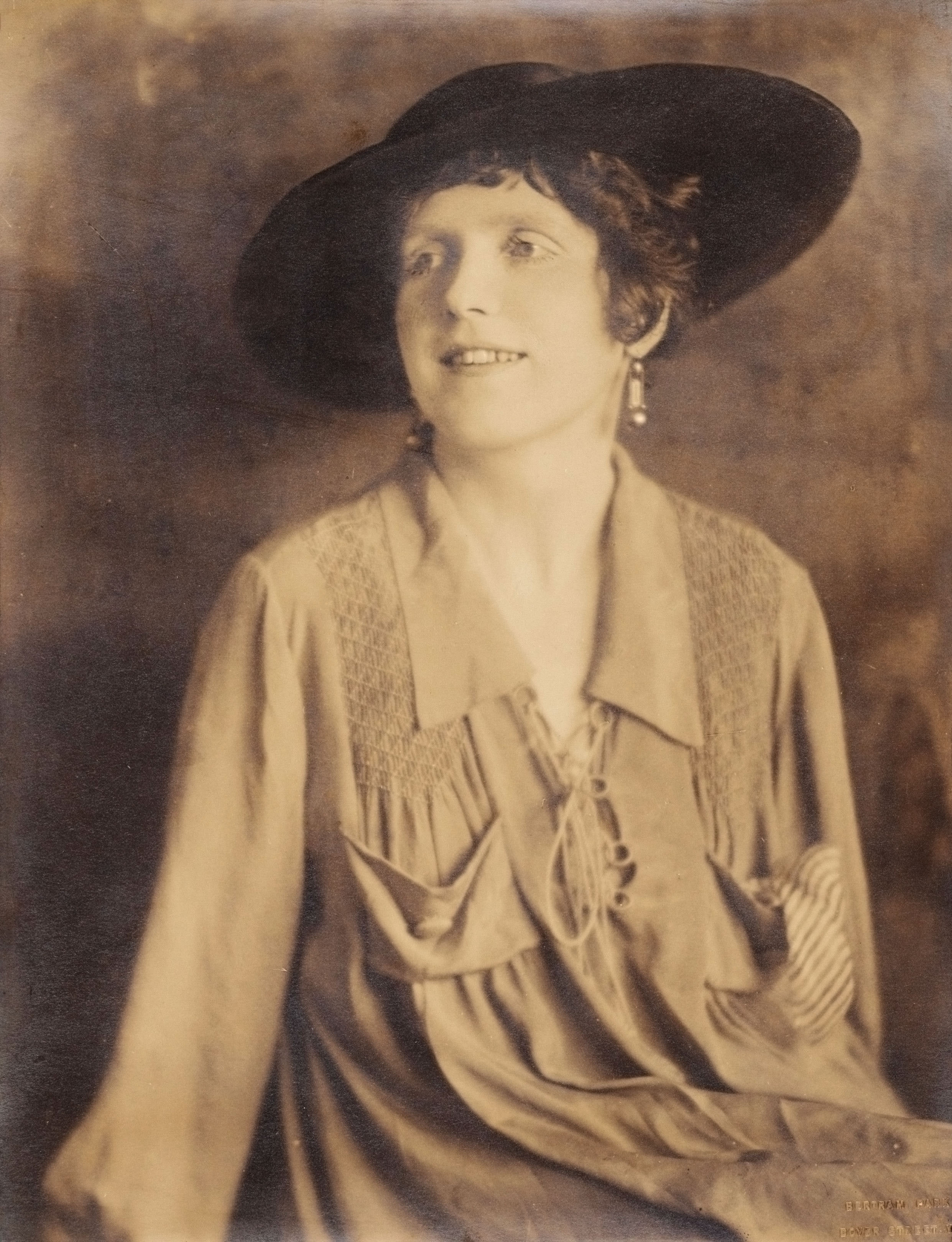 Photograph portrait of Mary Butts by Bertram Park, first published in 1919 and held in the Beinecke Library of Yale University.